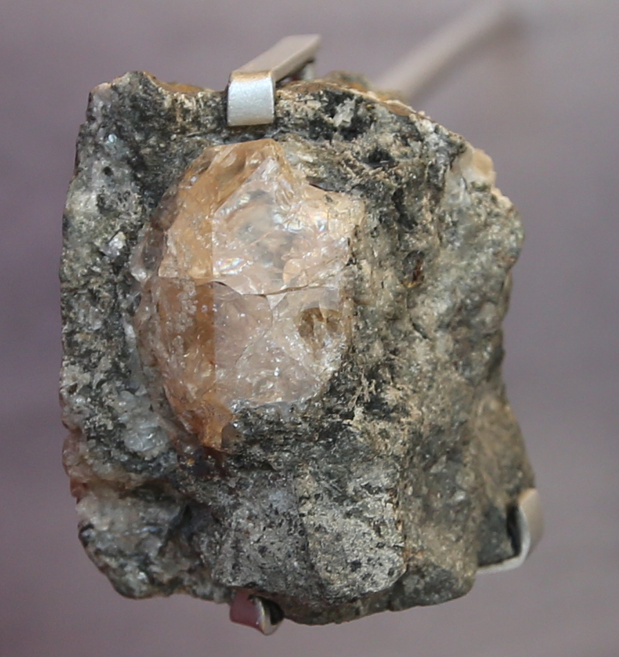 Photo of a crystal of Sarcolite. Collected from mount Vesuvius by William Thomson